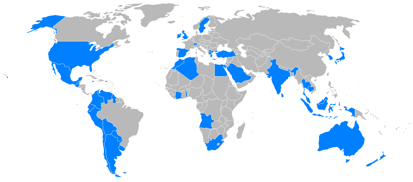 World map of Beechcraft King Air operators